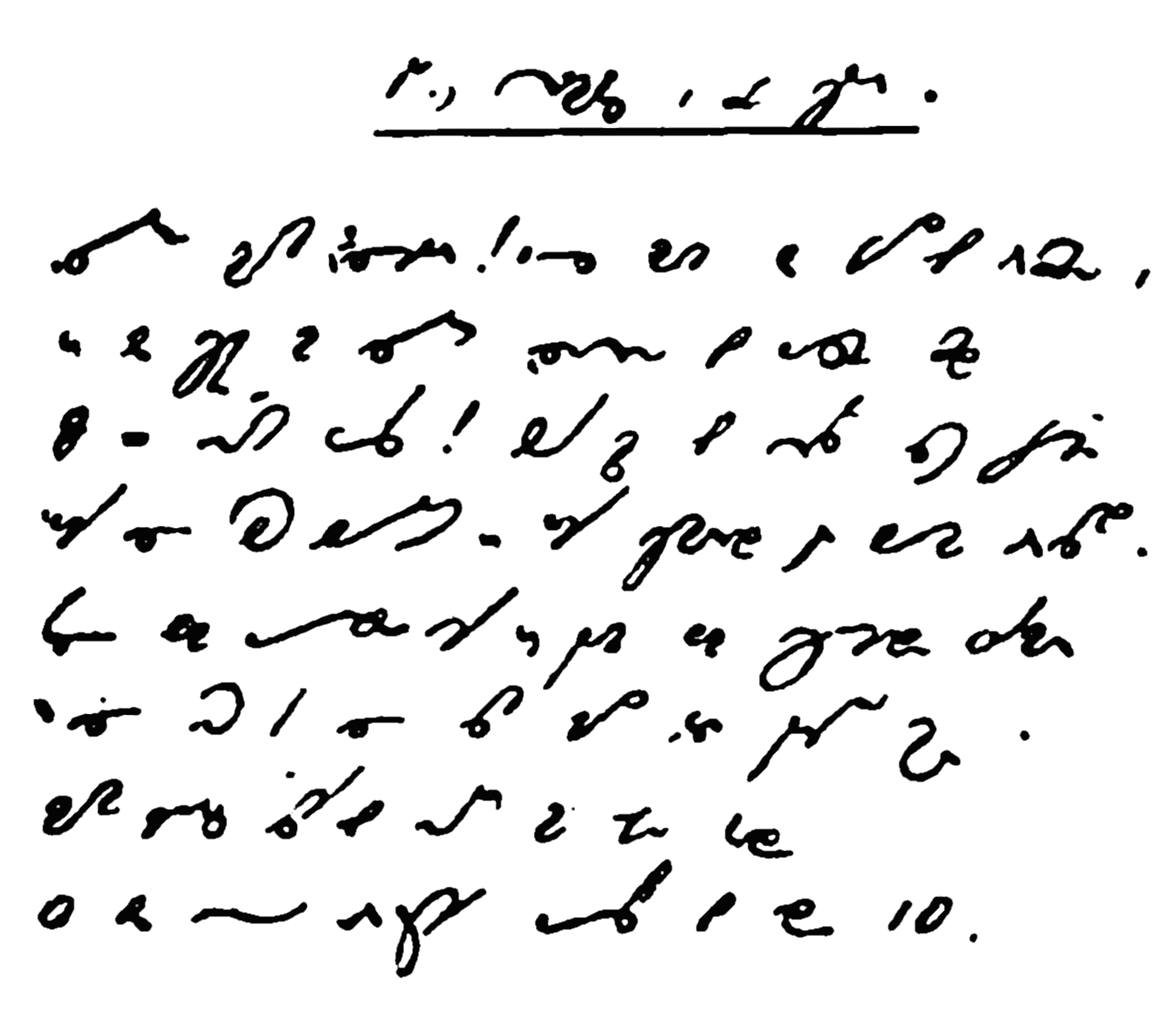 Example of Gabelsberger Shorthand